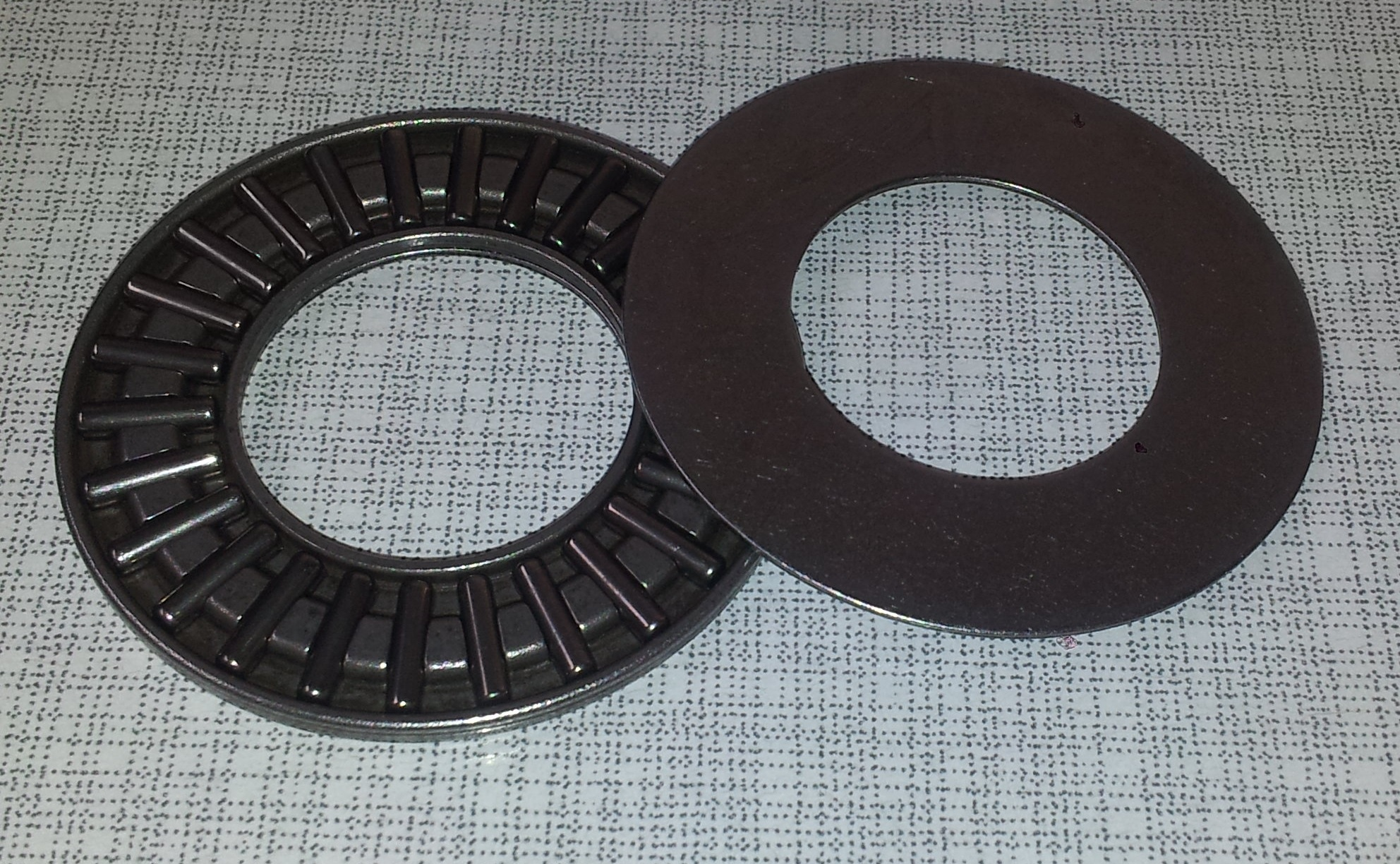 Thrust needle roller bearing manufacturer INA, type: TC1427-HLA/0-5E